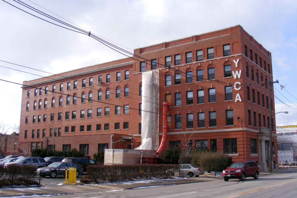 NRHP-listed YWCA Building in Youngstown, Ohio.